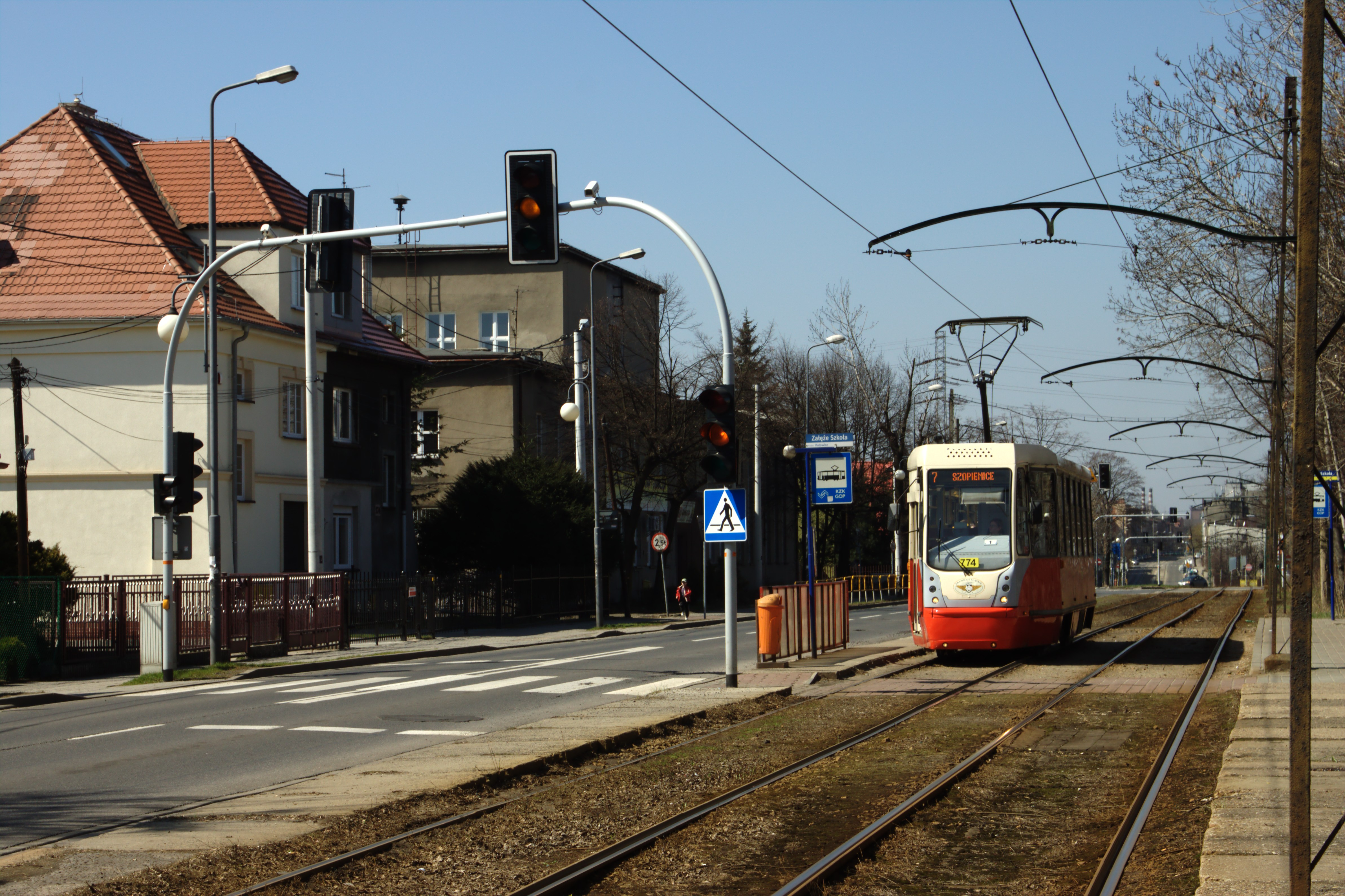 A modernized Konstal tram arriving to a stop close to the western edge of Katowice, Poland